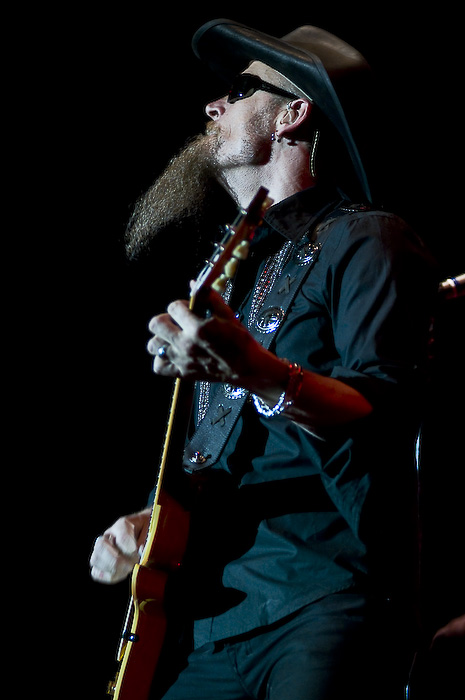 Dudley Taft